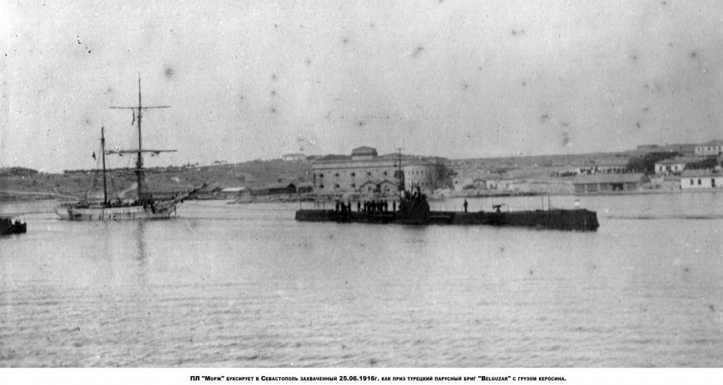 A Morzh class submarine tows the captured Turkish brig Belouzar to Sevastopol. The Belouzar was captured on June 25, 1916 while carrying a load of Kerosene.